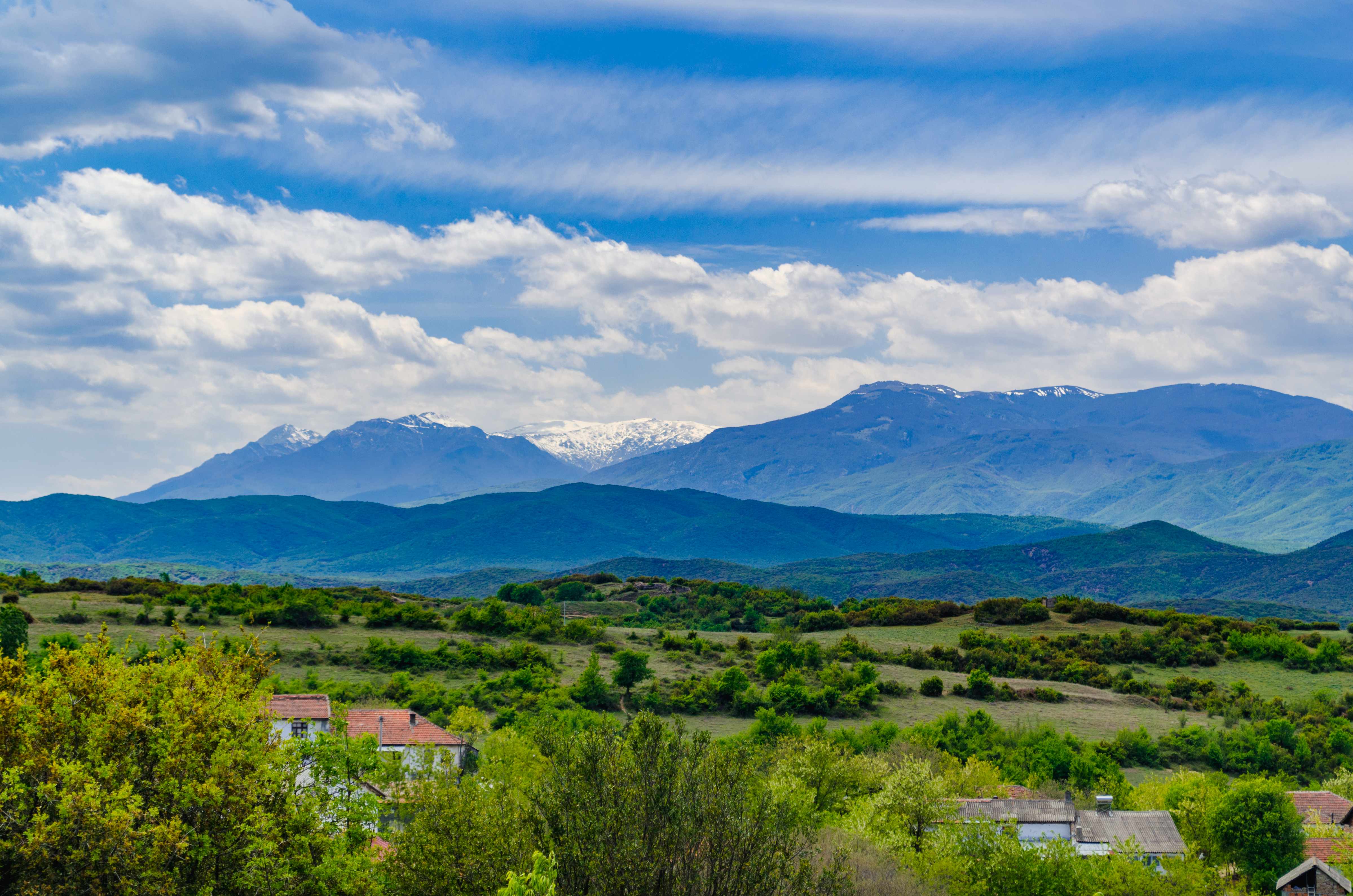 View of the mountain Kožuf from the village Marvinci